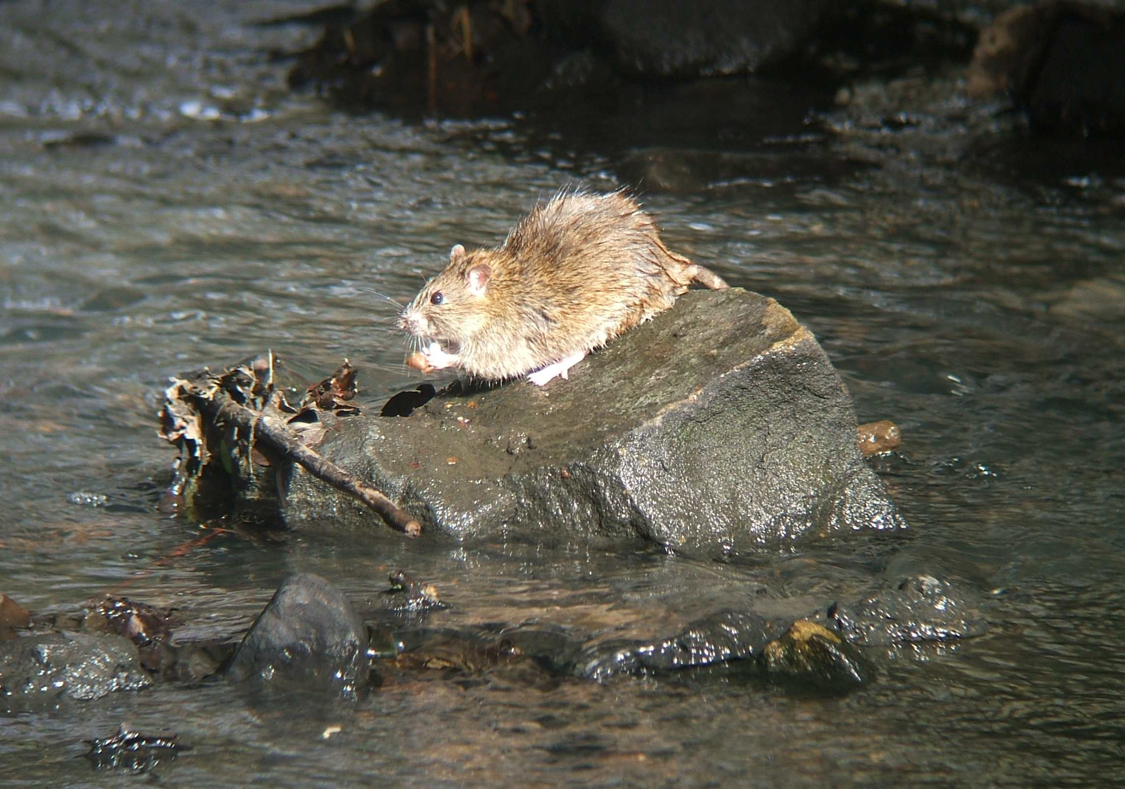 Brown Rat Rattus norvegicus, 09 April 2008. Ouse Burn, Jesmond Dene, Newcastle upon Tyne, Northumberland, UK.